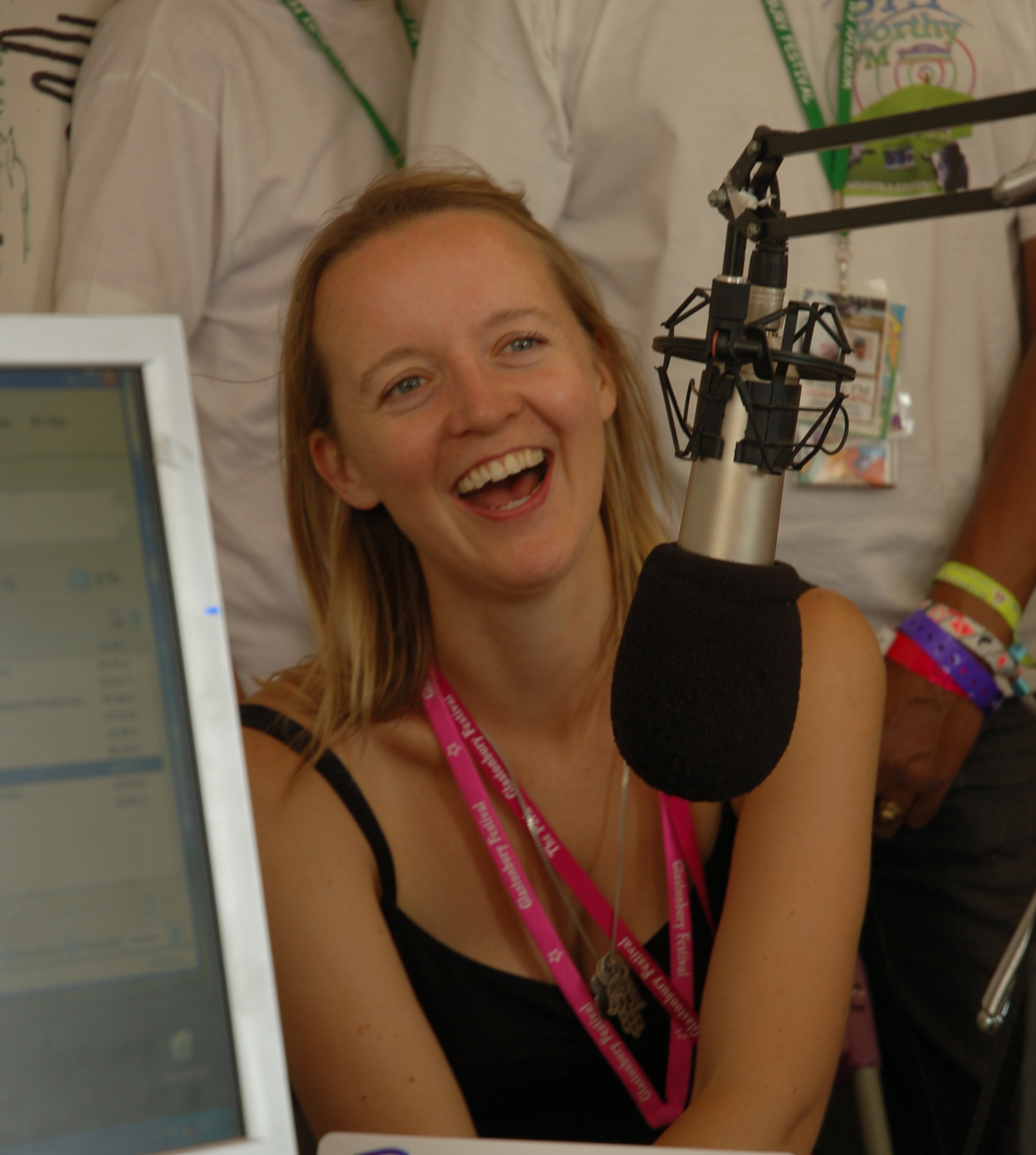 Emily Eavis drops into the Worthy FM studio for a chat